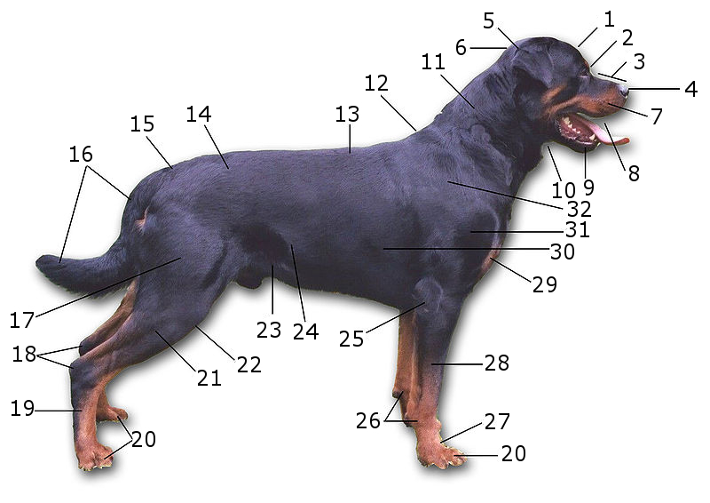 Image of a dog with numbers for specific anatomical structures